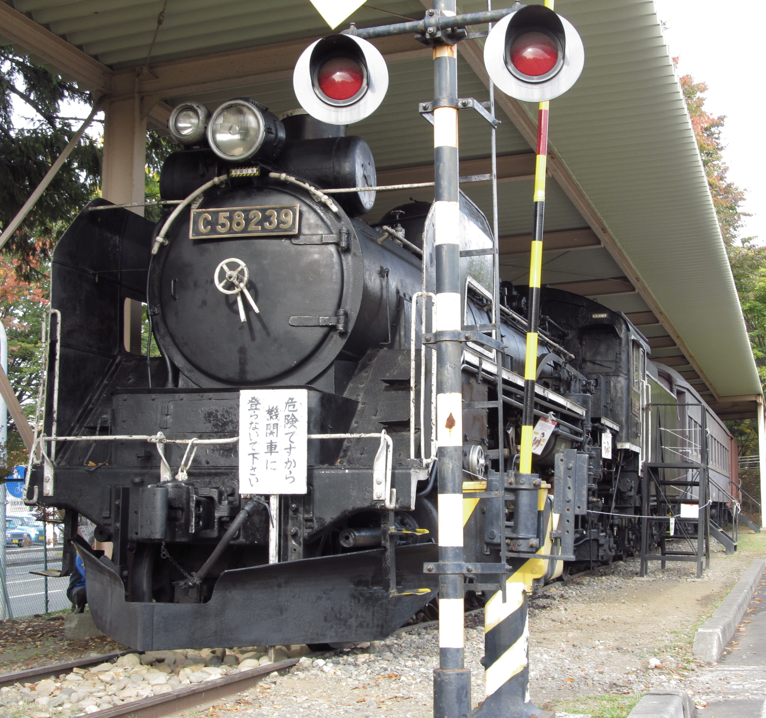 Former JNR Class C58 steam locomotive C58 239 preserved statically in Morioka, Iwate Prefecture, Japan